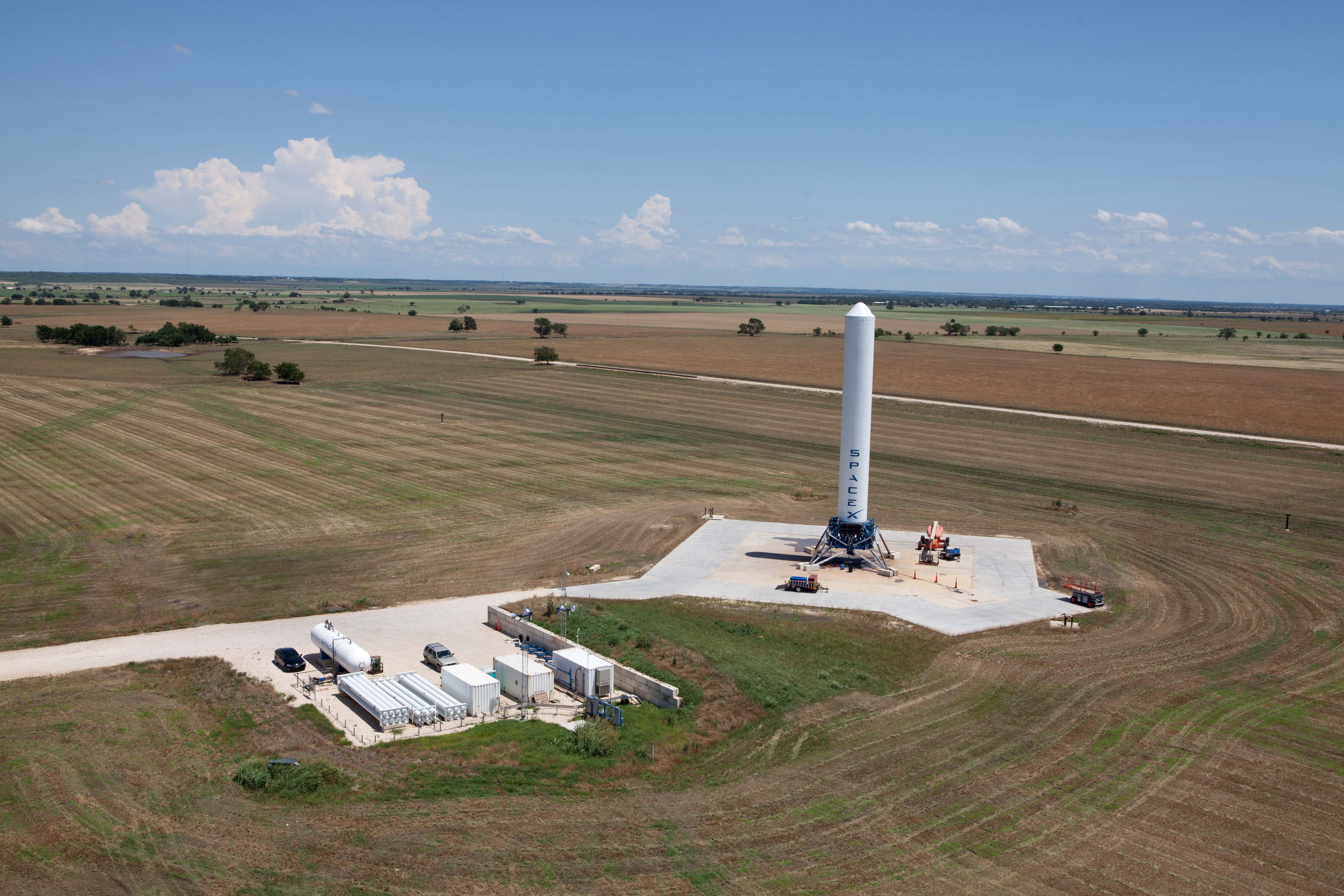 Grasshopper Site at Rocket Development Facility, McGregor, Texas